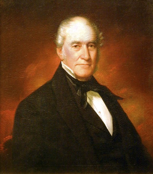 Thomas Bennett, Jr., a 19th century governor of South Carolina, was painted in about 1850 by William Harrison Scarborough.